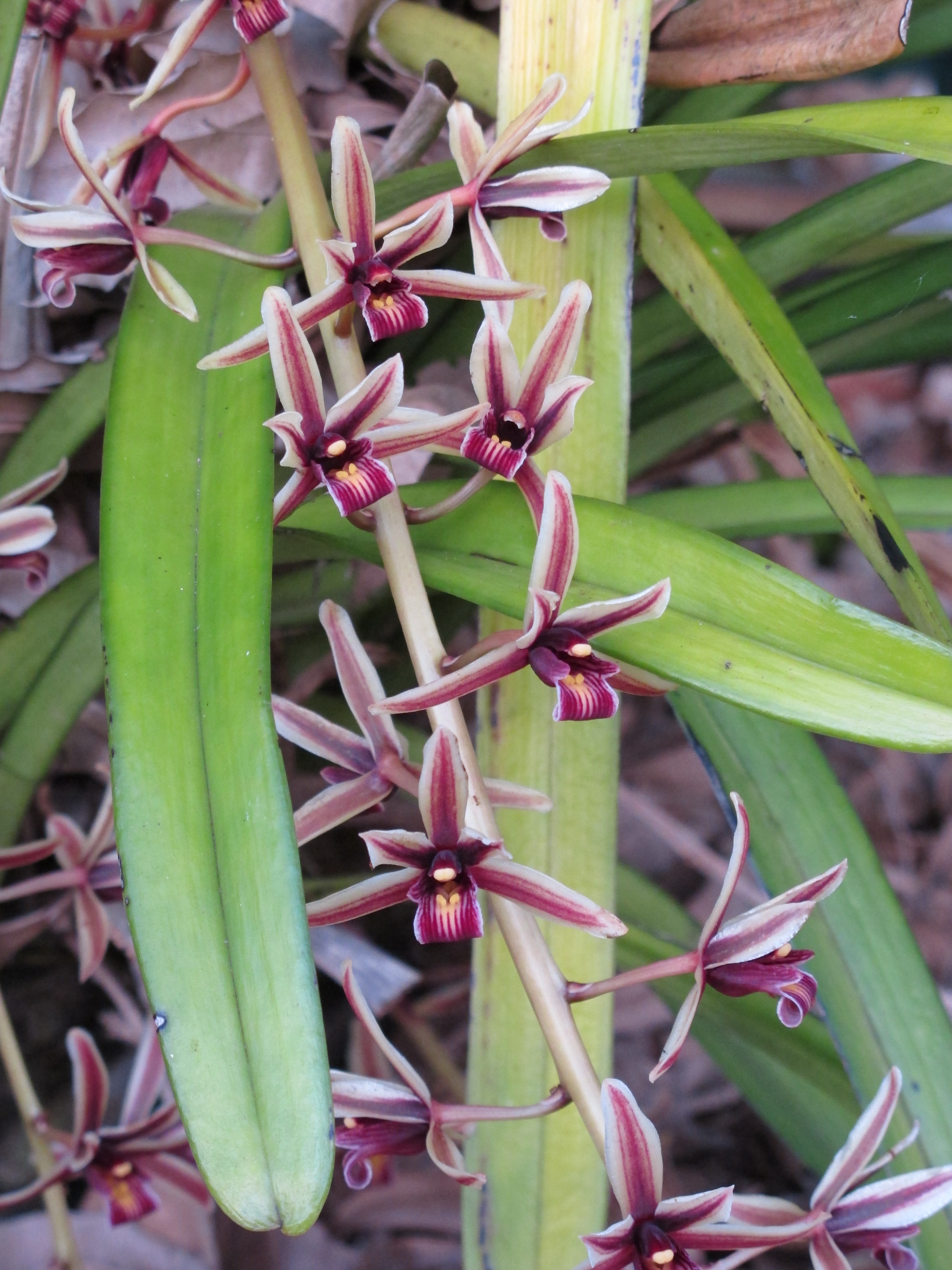 photo of Cymbidium aliofolium, type species of genus Cymbidium.